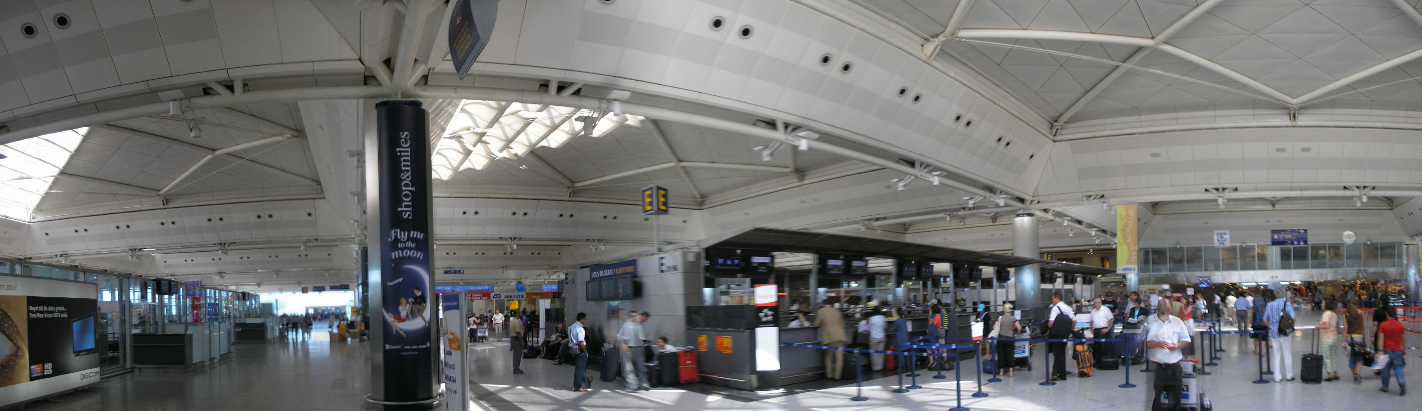 Central air terminal of Atatürk International Airport This panoramic image was created with Autostitch (stitched images may differ from reality).